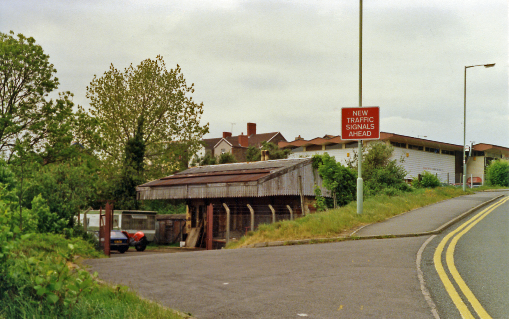 Site/remains of Church Village Halt. View NW to A473 road; ex-Taff Vale Pontypridd (right) - Llantrisant (left) line, closed since 6/3/52.